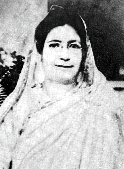 Rokeya Sakhawat Hossain, an educator and feminist from early 20th century Bengal.